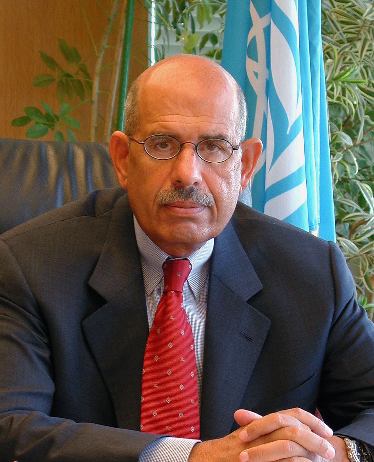 Mohamed ElBaradei, International Atomic Energy Agency Director General (1997 - 2009)